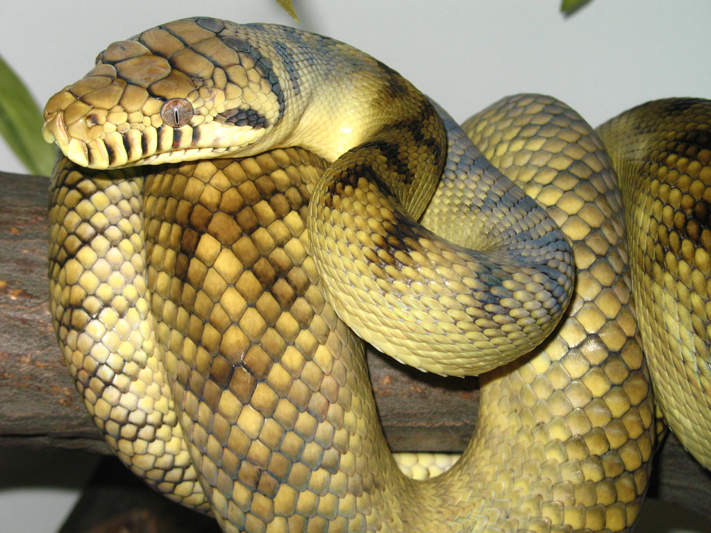 High-Yellow Sorong Amethystine Scrub Python